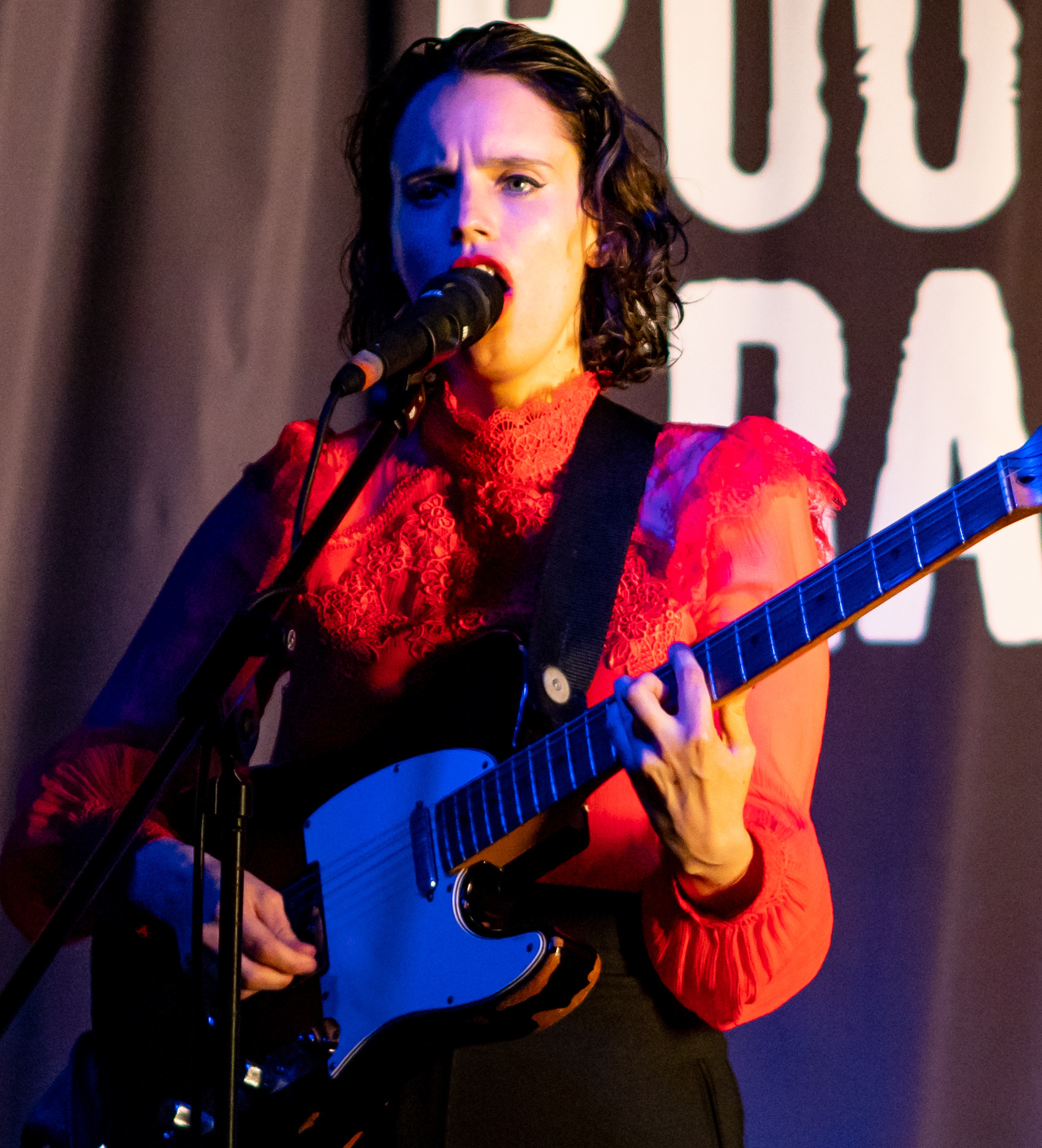 Anna Calvi performing at Rough Trade, New York City.